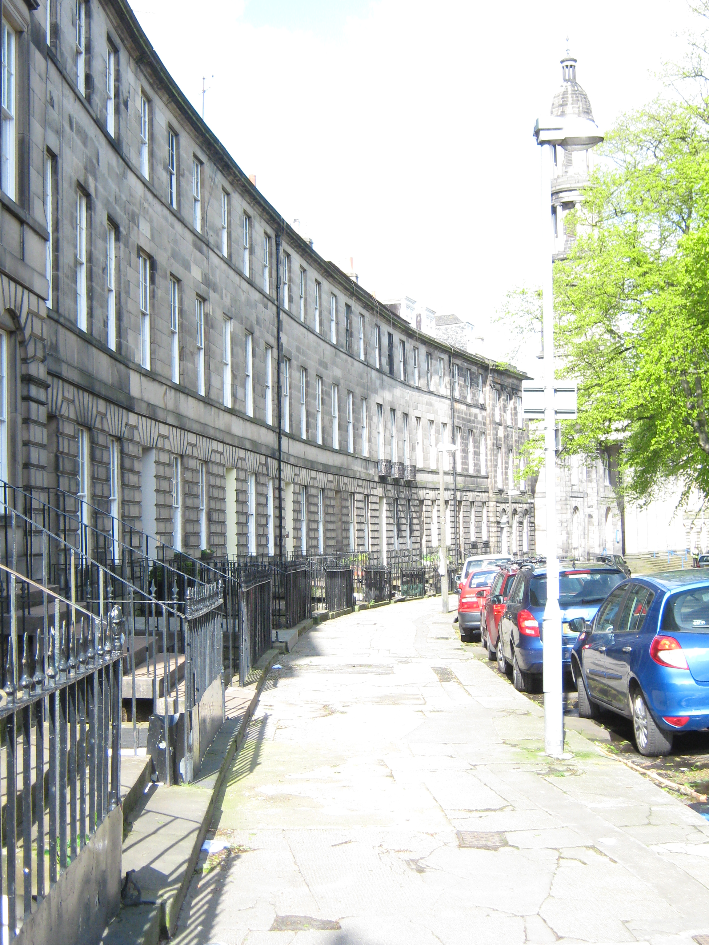 Bellevue Crescent, Broughton Edinburgh. Including Broughton St Mary's Parish Church OSM Permalink